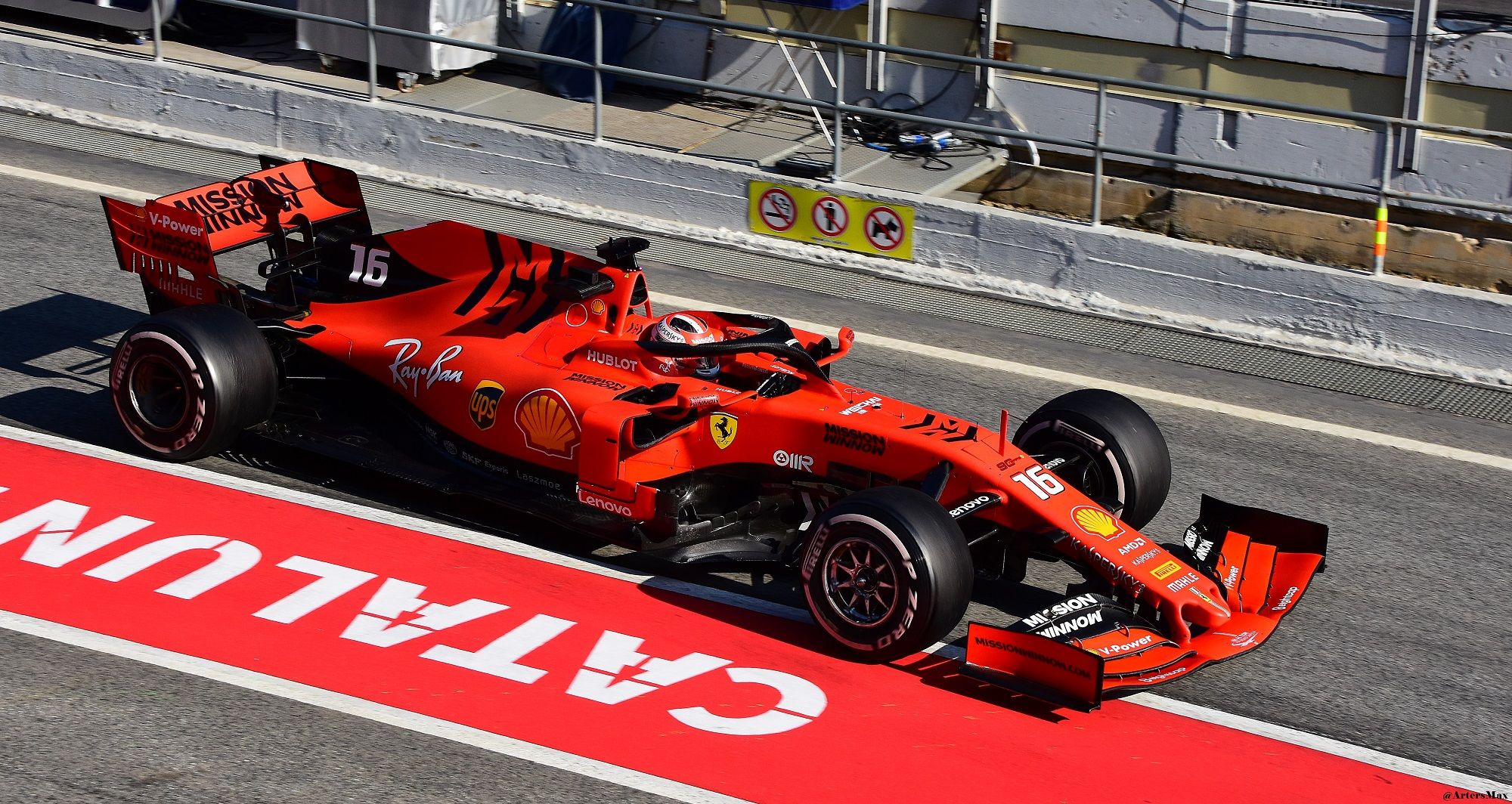 2019 Formula One tests Barcelona, Leclerc.